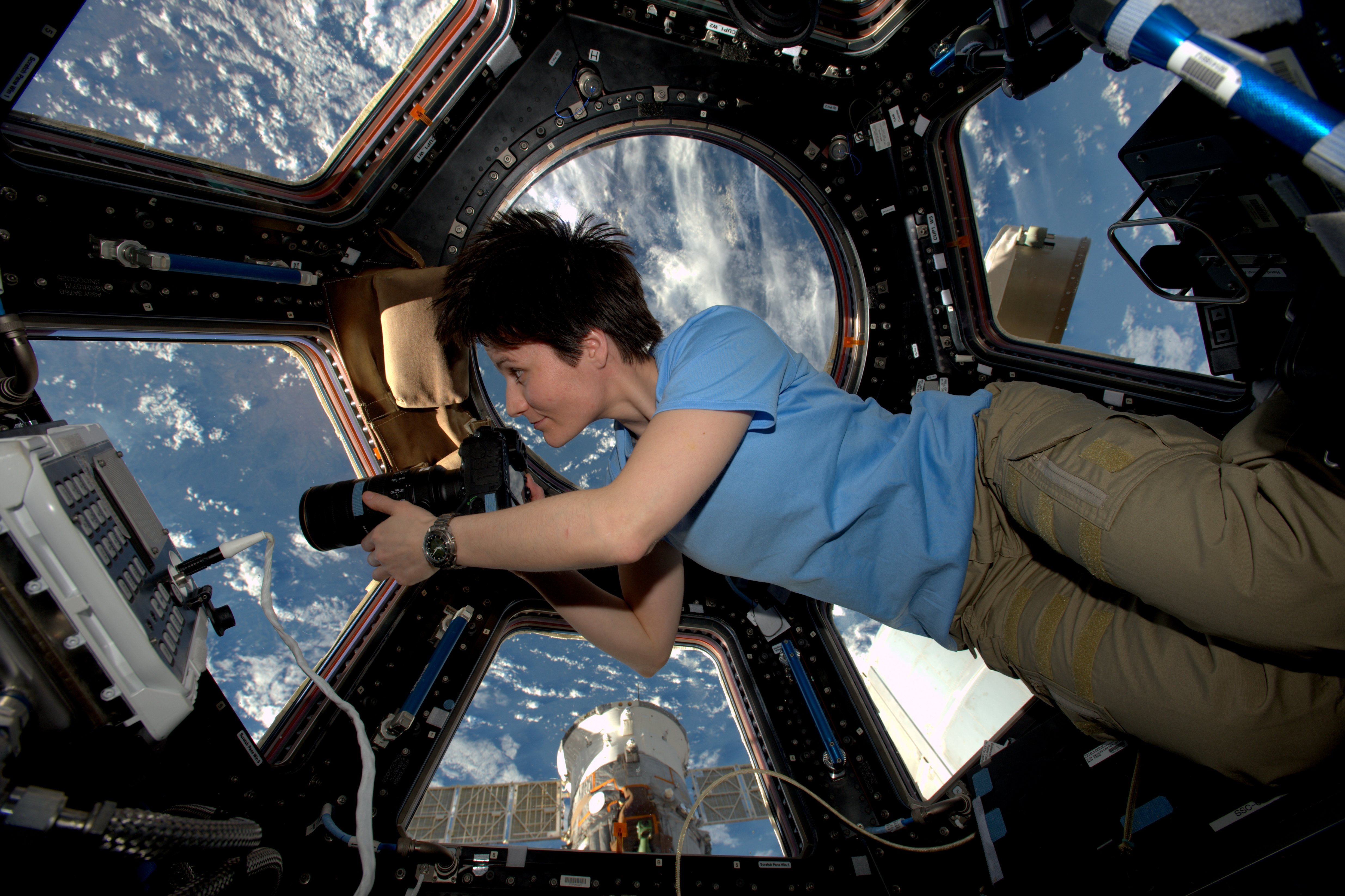 European Space Agency (ESA) astronaut Samantha Cristoforetti, a Flight Engineer with Expedition 42, photographs the Earth through a window in the Cupola on the International Space Station.